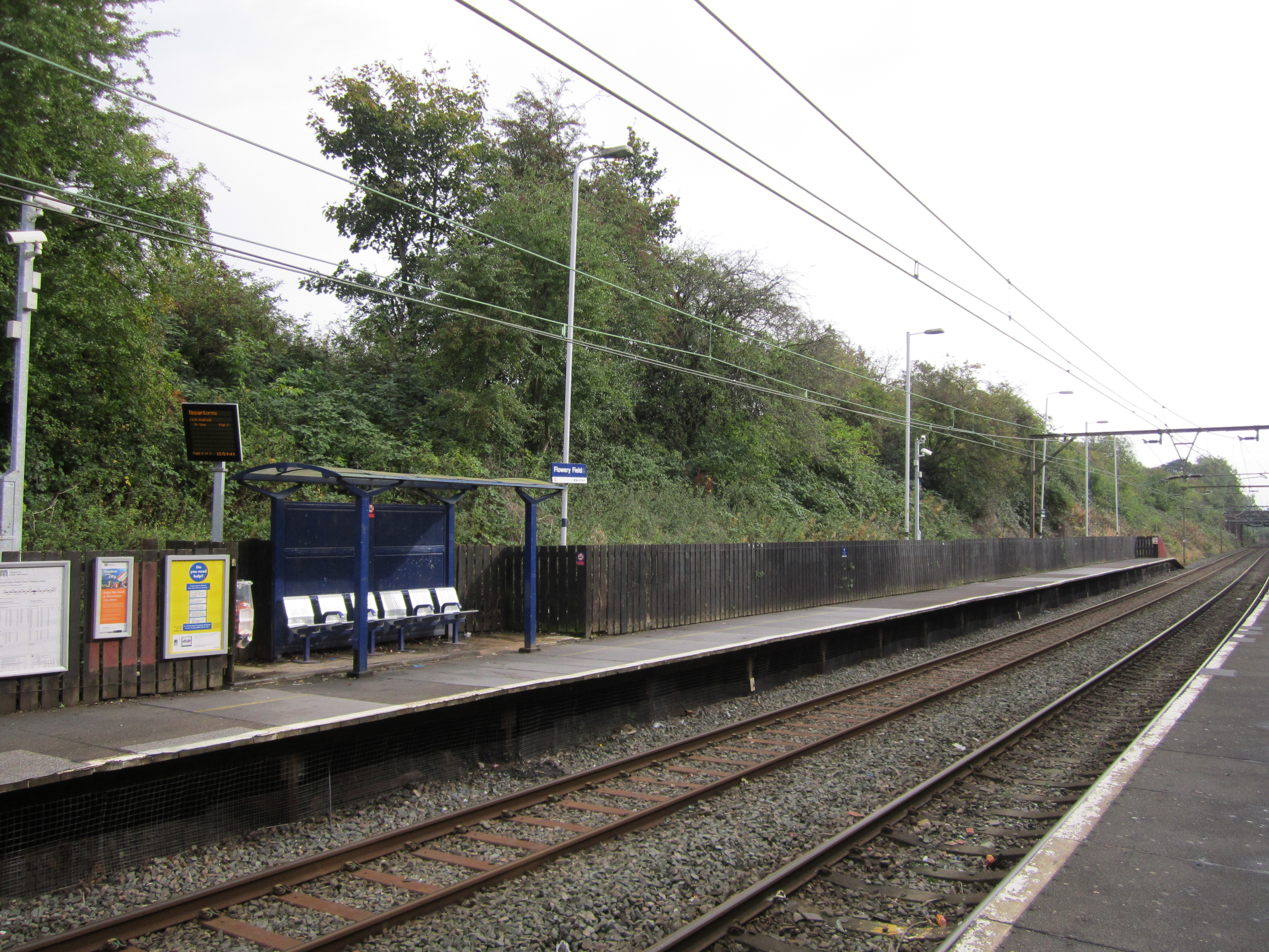 Photo taken at Flowery Field railway station, Greater Manchester, England.